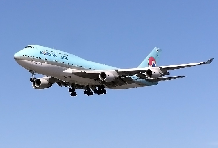 Korean Air Boeing 747-400 (type and registration not visible) landing at London (Heathrow) Airport.